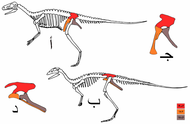 A. Eoraptor, a basal Saurischian, B. Lesothosaurus, a basal Ornithischian, C. Pelvis of a basal Saurischian, D. Pelvis of Lesothosaurus.